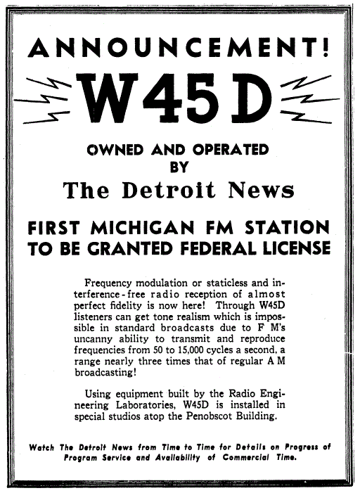 In May 1941, radio station W45D began broadcasting in Detroit, Michigan as that state's first FM station